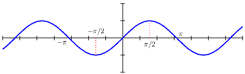 PSTricks example of pst-plot usage Category:Geometry Diagrams